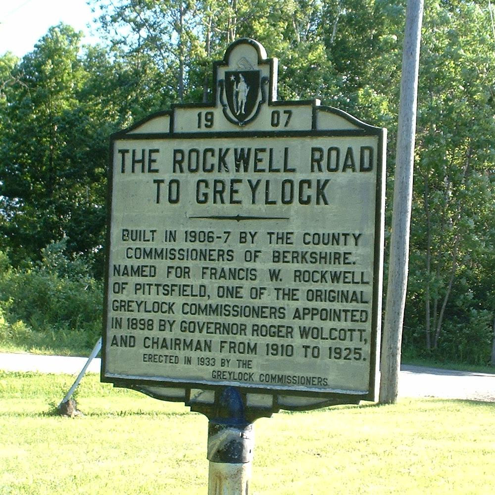 The historical marker at the start of the Rockwell Road to Mount Greylock, in Lanesborough, Massachusetts. Rockwell Road, Lanesborough, MA